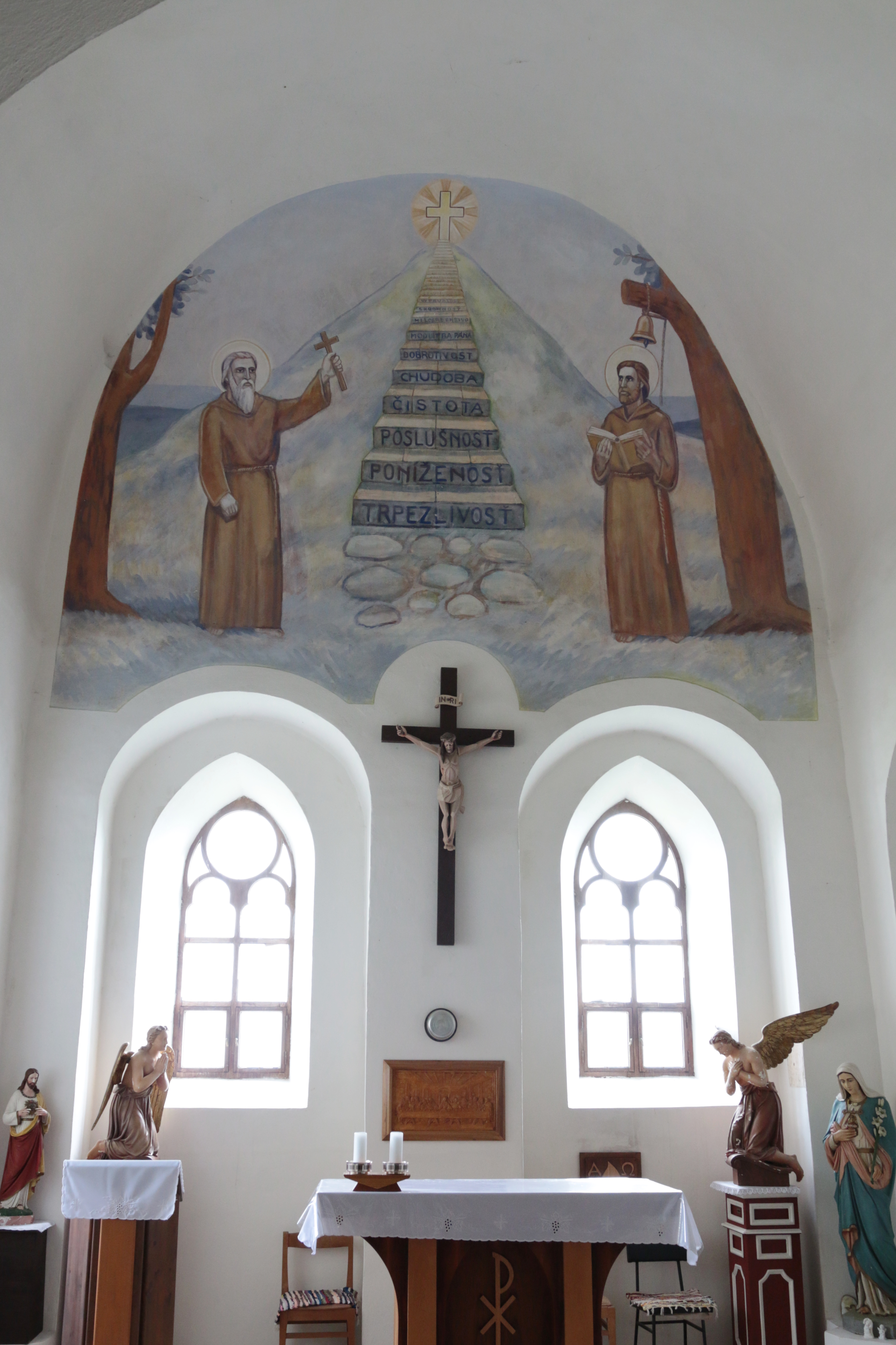 An Interior of the chapel in the Monastery Veľká Skalka.